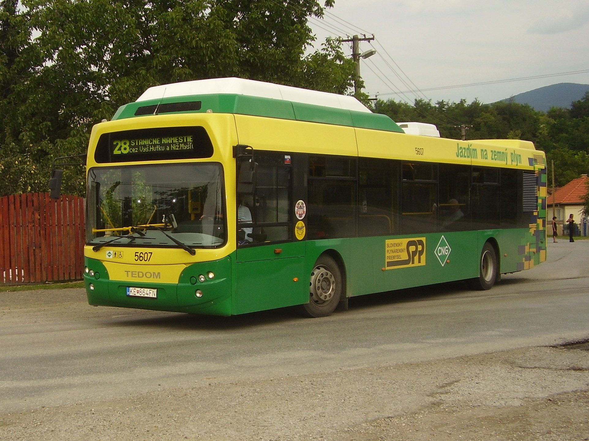 Bus Tedom C12, Košice city transport